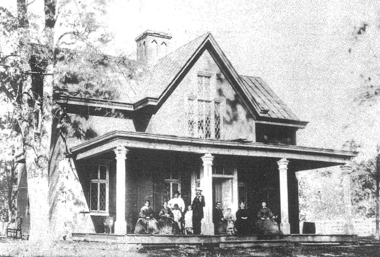 Tudor Hall, the home of the Booth Family (1847–1860s), in an 1865 photograph. The house still stands near Bel Air, Maryland, U.S.